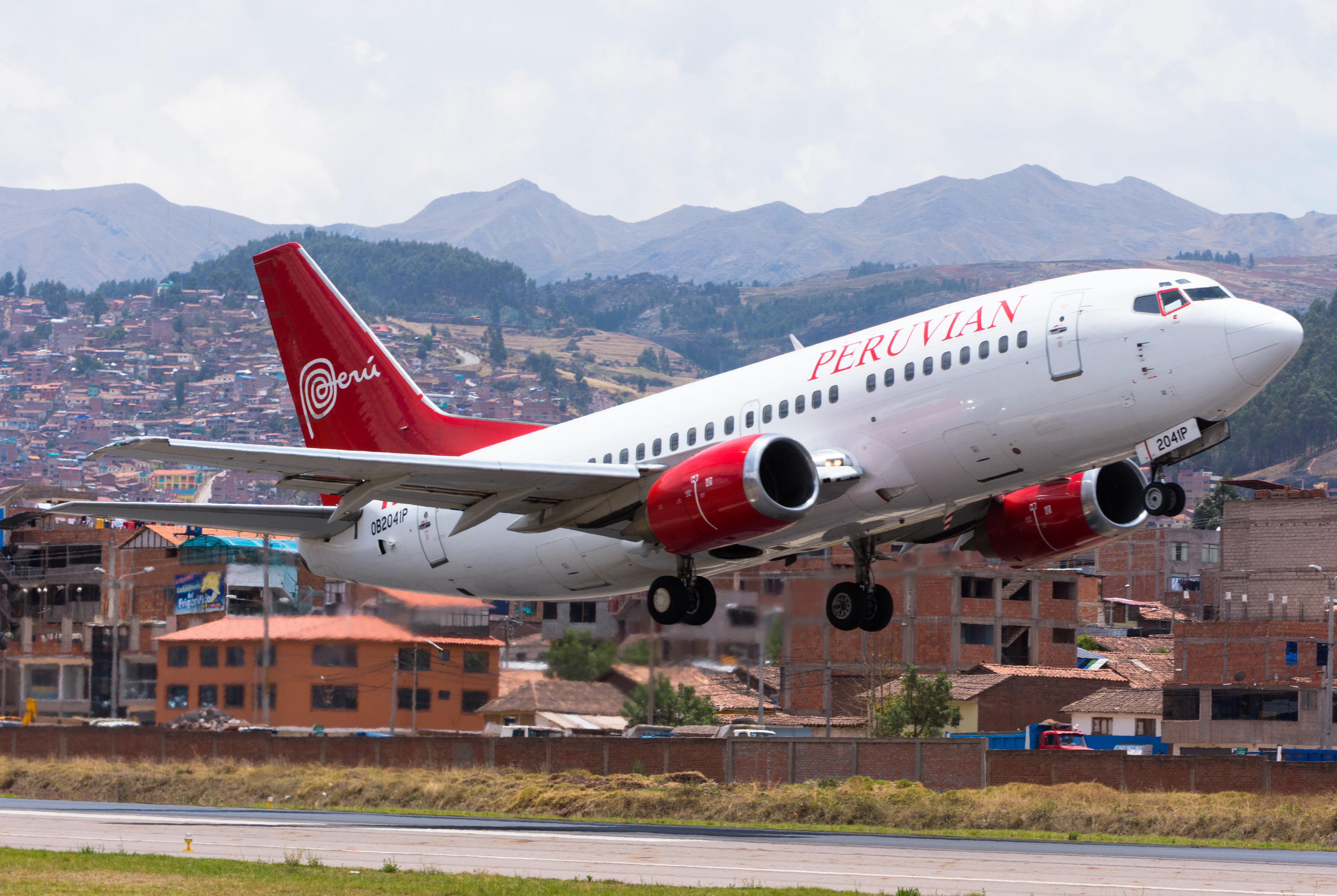 Boeing 737-500 of Peruvian Airlines take off Cusco